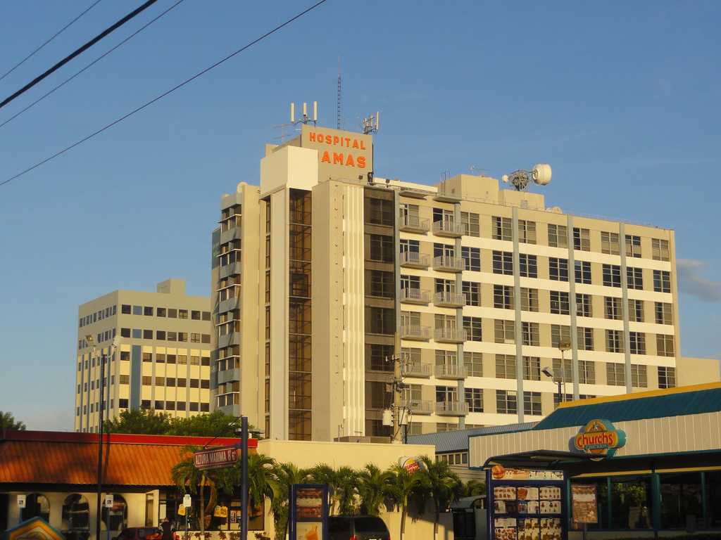 Hospital Damas, Ponce By-pass, Barrio Canas Urbano, Ponce, Puerto Rico